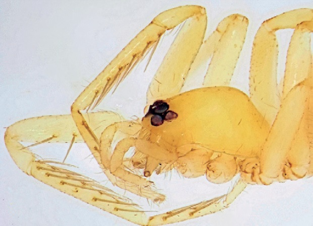 Spinestis nikita, female, lateral view.